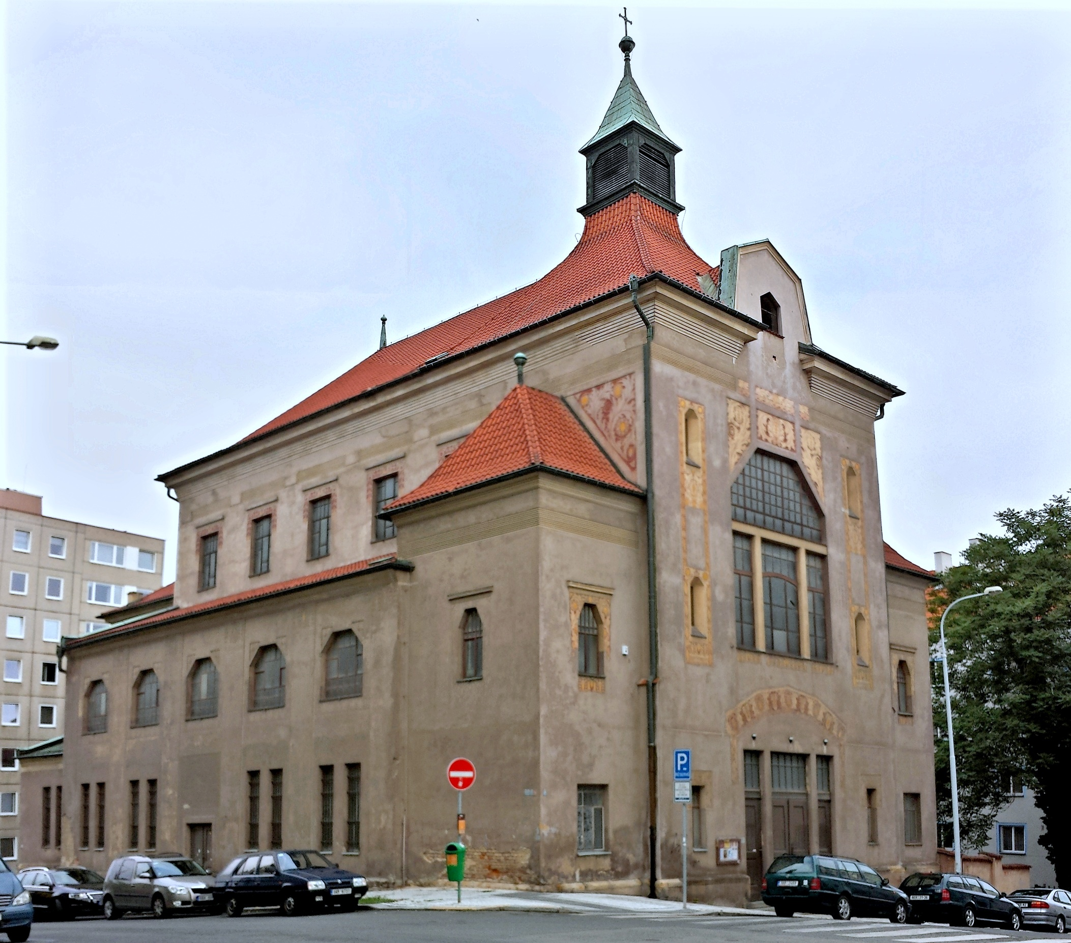 Church of Saint Anne in Žižkov (Prague, Czechia).